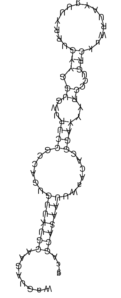 RNA secondary structure of TB9Cs3H1 generated by the WAR server( It is the consensus structure from 9 Trypansomatid species -Leishmania major, Leishmania infantum, Leishmania braziliensis, Leishmania mexicana, Trypanosoma brucei, Trypanosoma brucei gambiense, Trypanosoma cruzi, Trypanosoma congolense, Trypansoma vivax